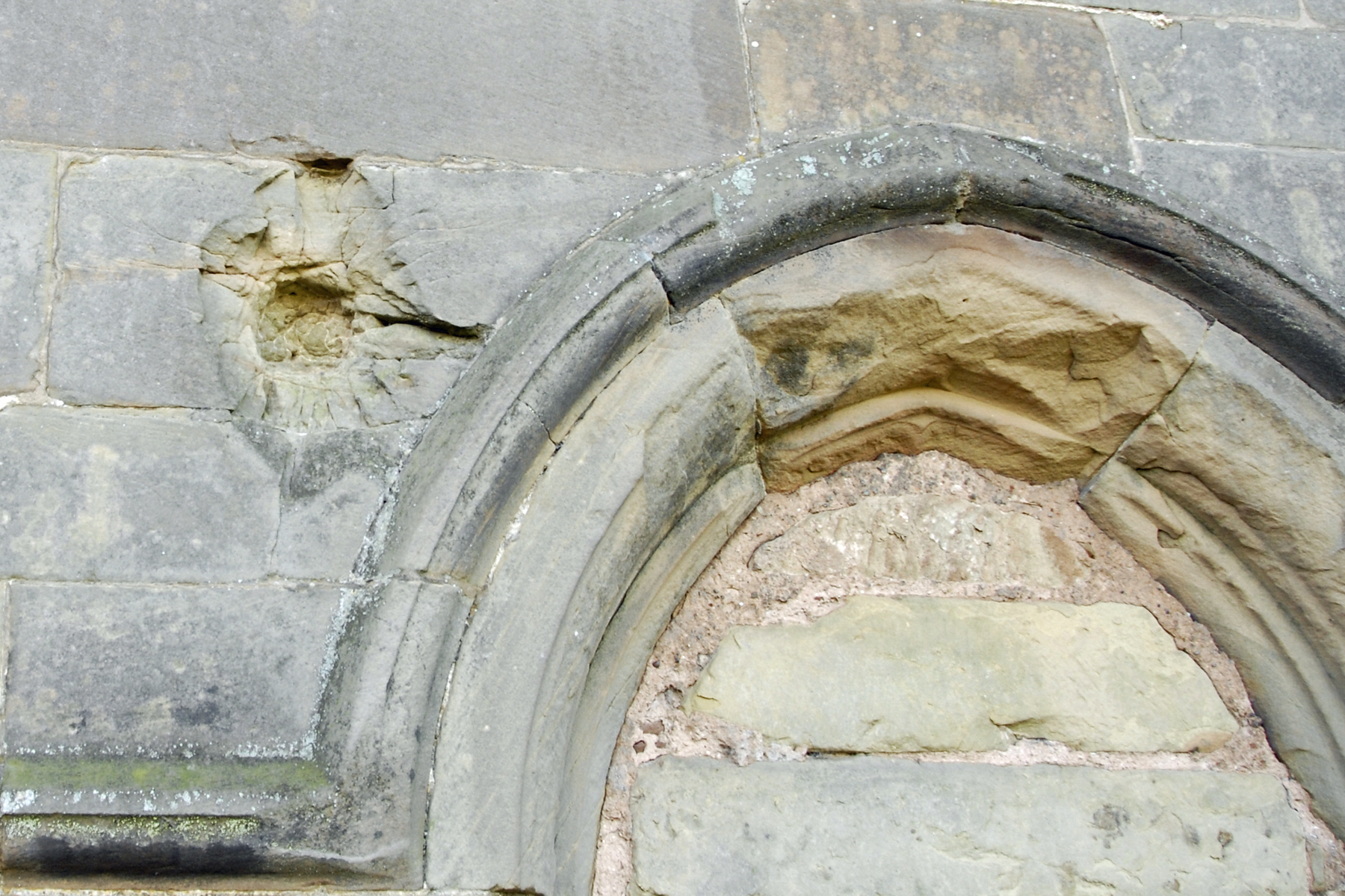 Cannonball damage beside the blocked north doorway of St Bartholomew's parish church, Tong, Shropshire